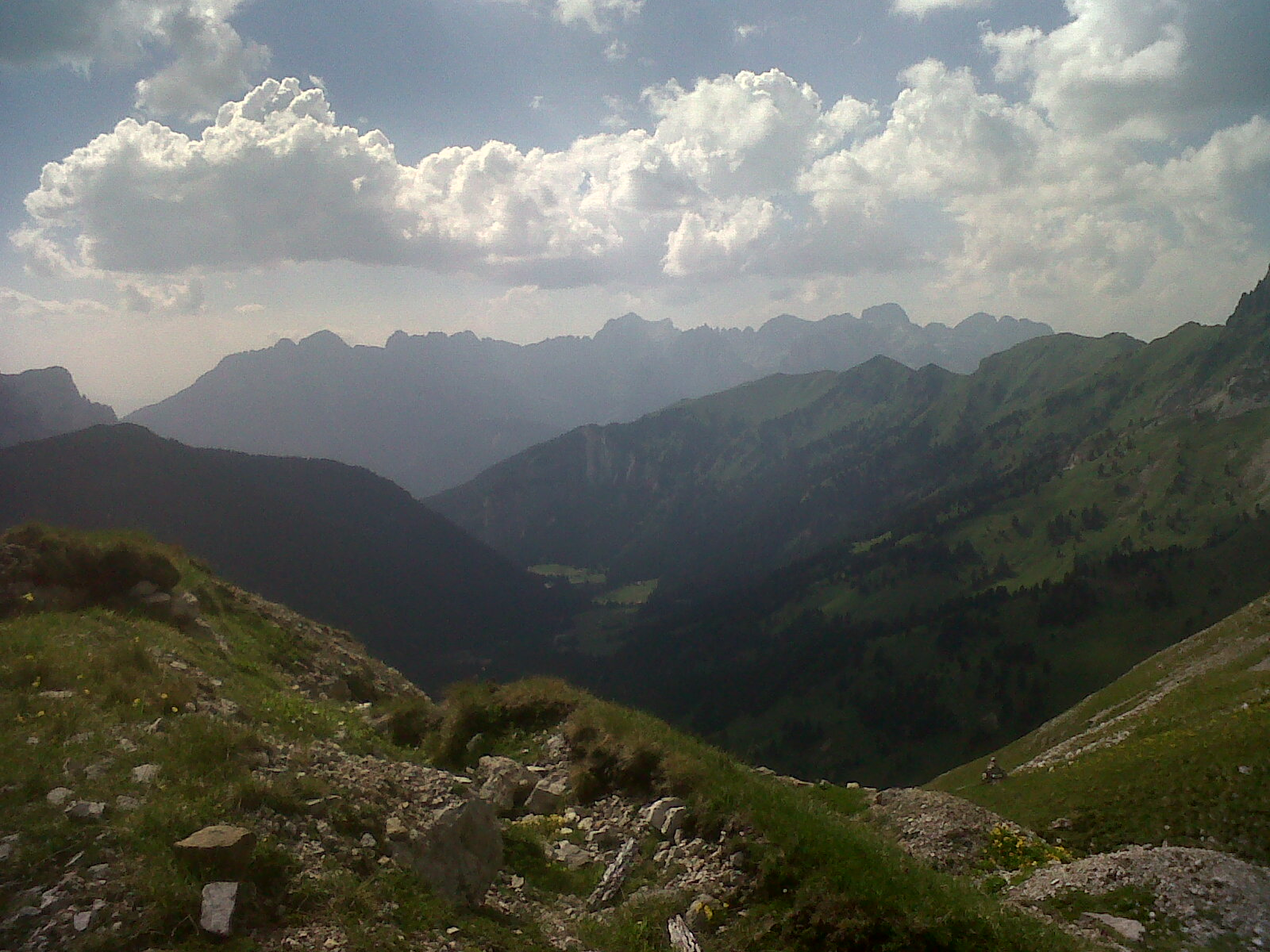 The S. Nicolò Valley (Dolomites, Fassa Valley) seen just after the Pasché Pass (2,500 meters).